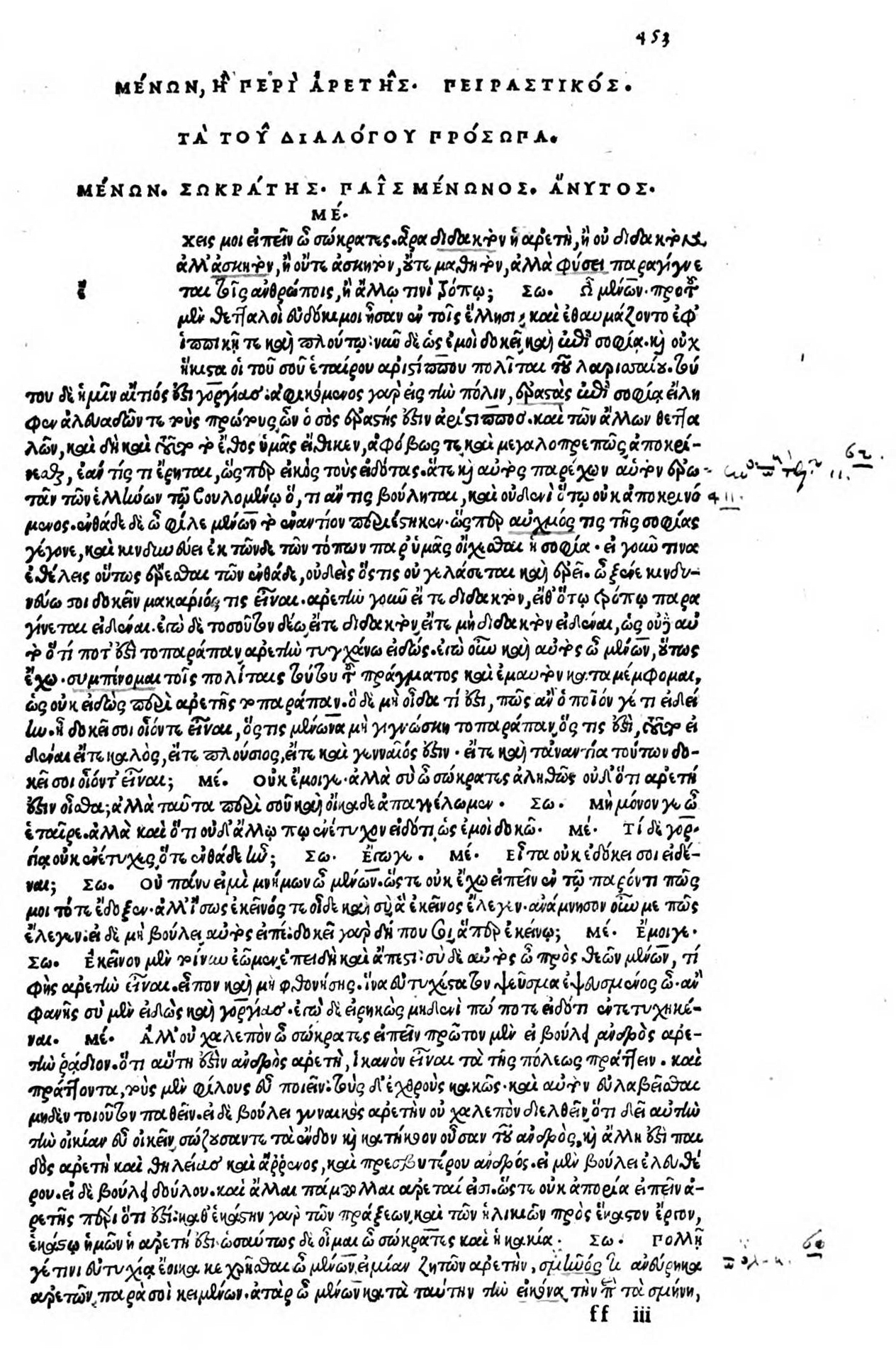 Menon beginning. Editio princeps, Venice 1513.